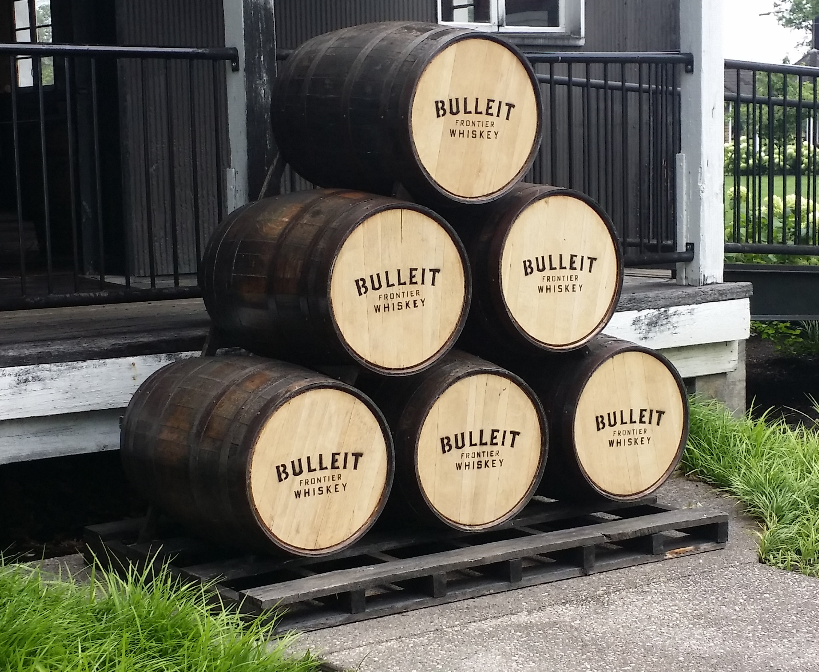 Image taken at the Stitzel-Weller Distillery